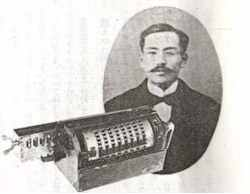 Ryoichi Yazu and his Patent Yazu Arithmometer.